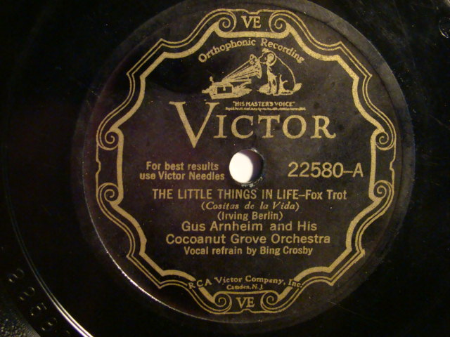 Gus Arnheim - The Little Things in Life